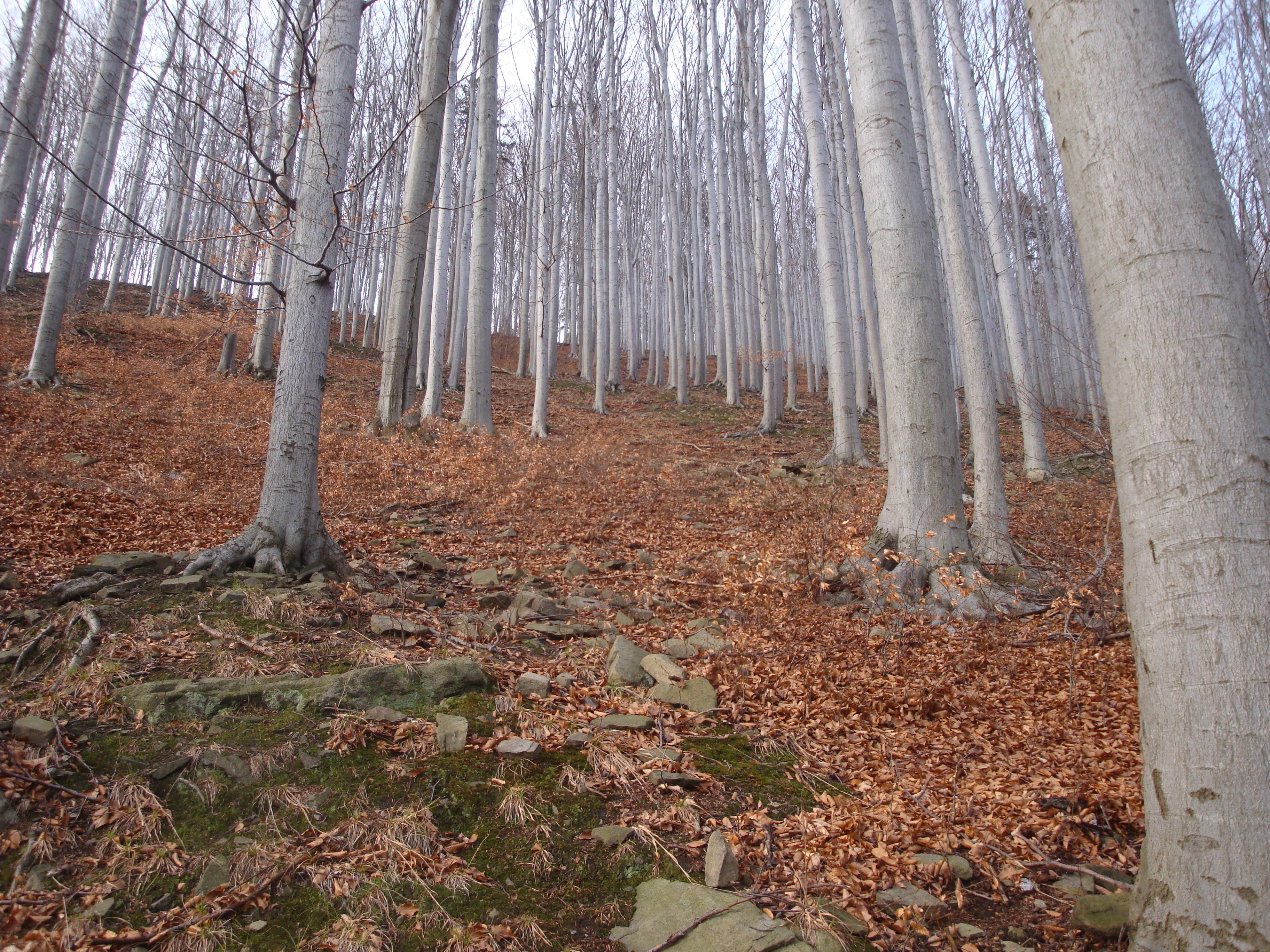 Nature reserve "Zasolnica" in Little Beskid, Poland.